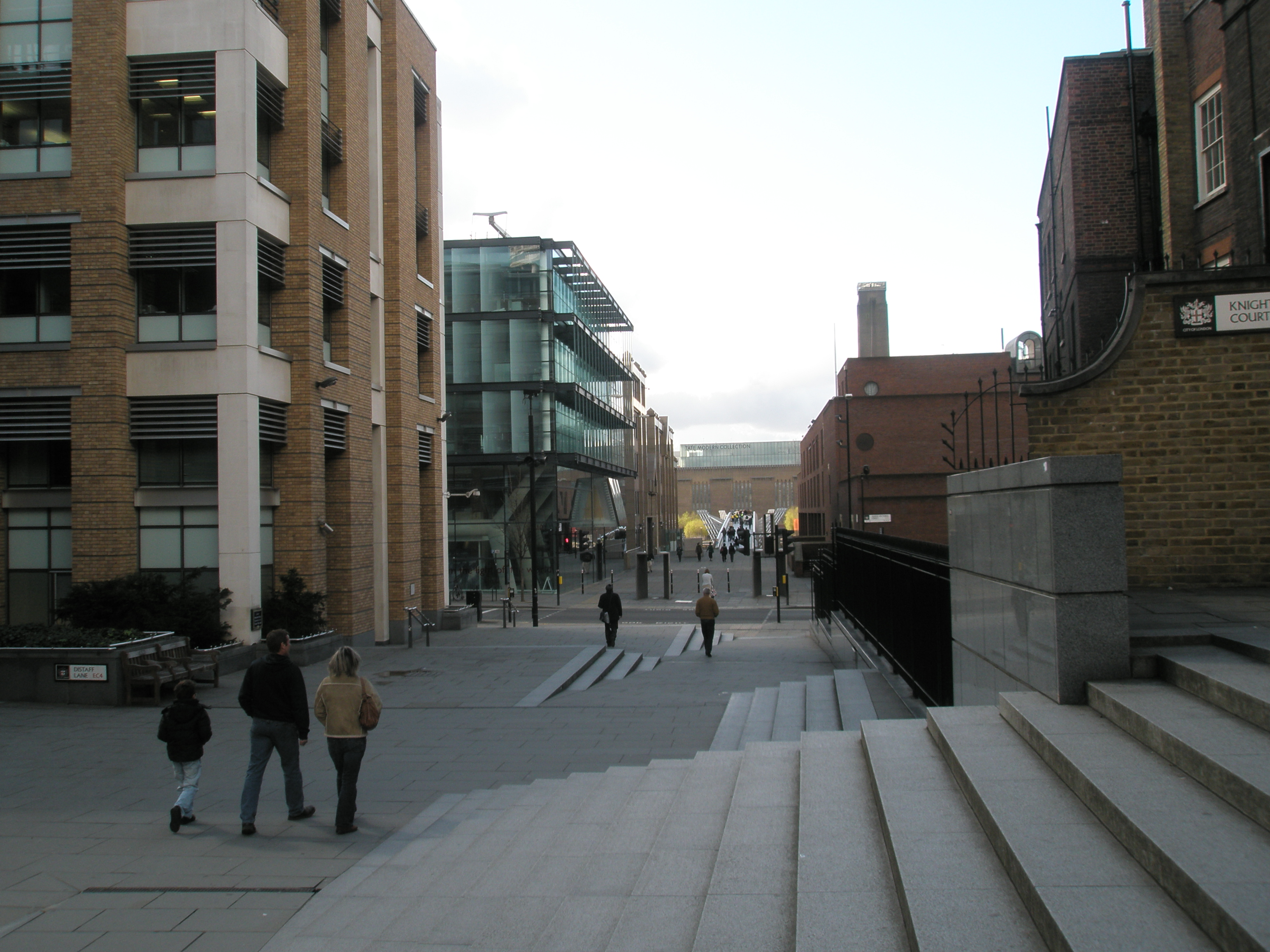 Peter's Hill